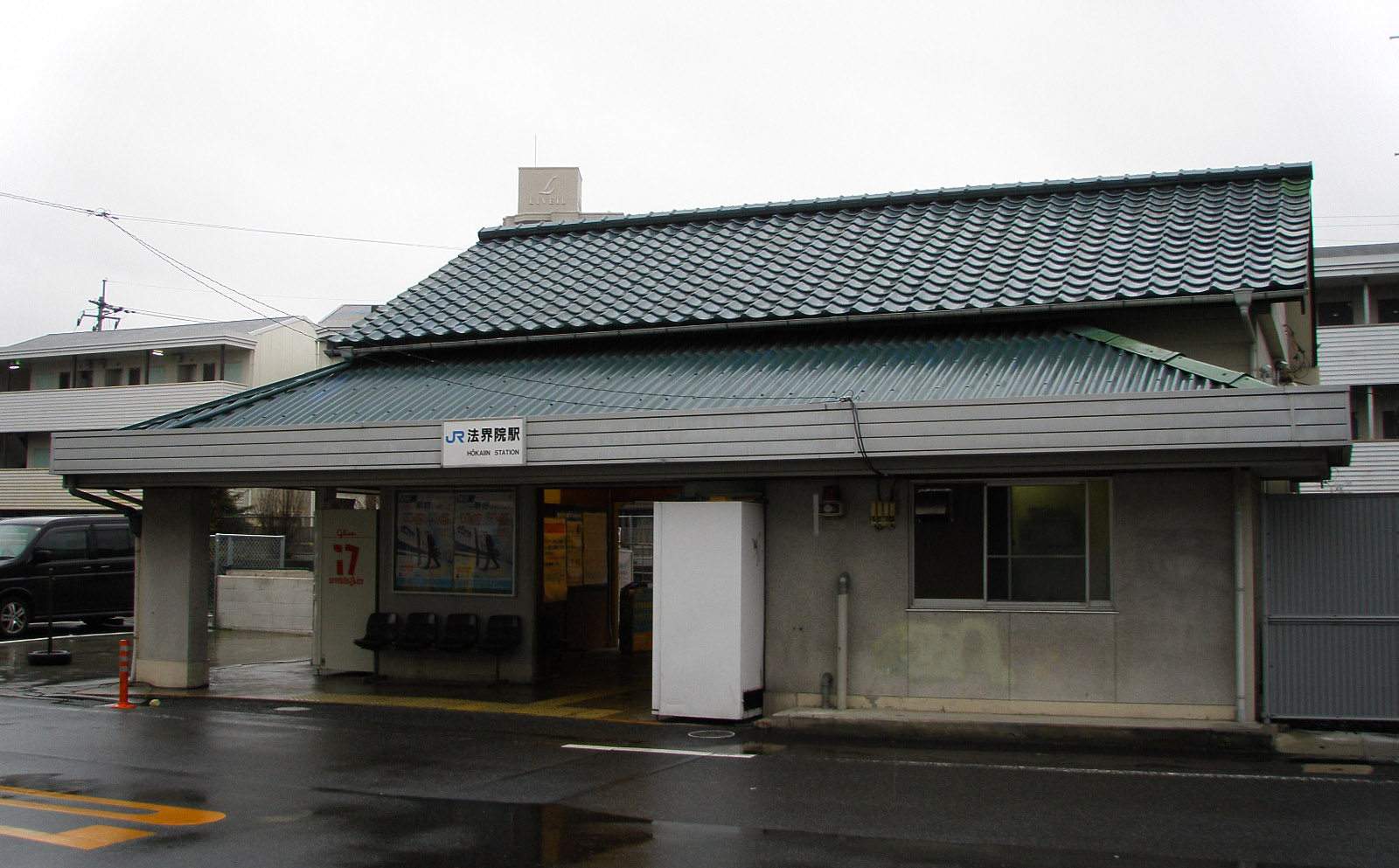 West Japan Railway Tsuyama Line Hōkaiin Station Building